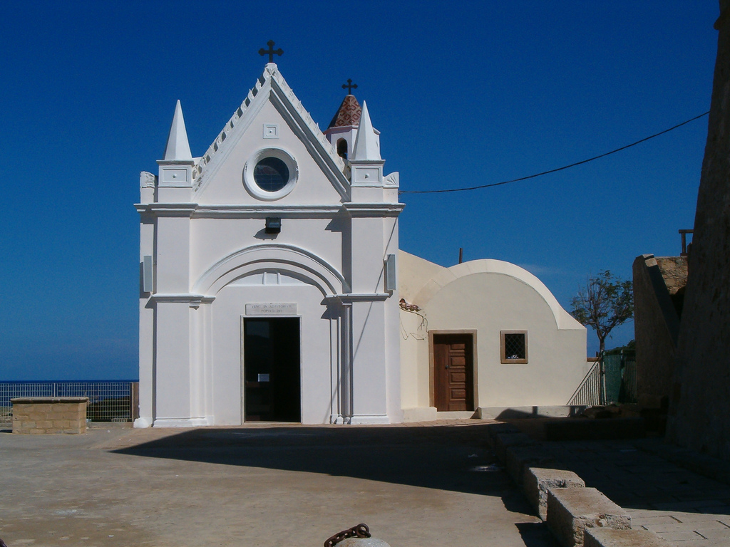 Chapel at Capo Colonna, Calabria, Italy